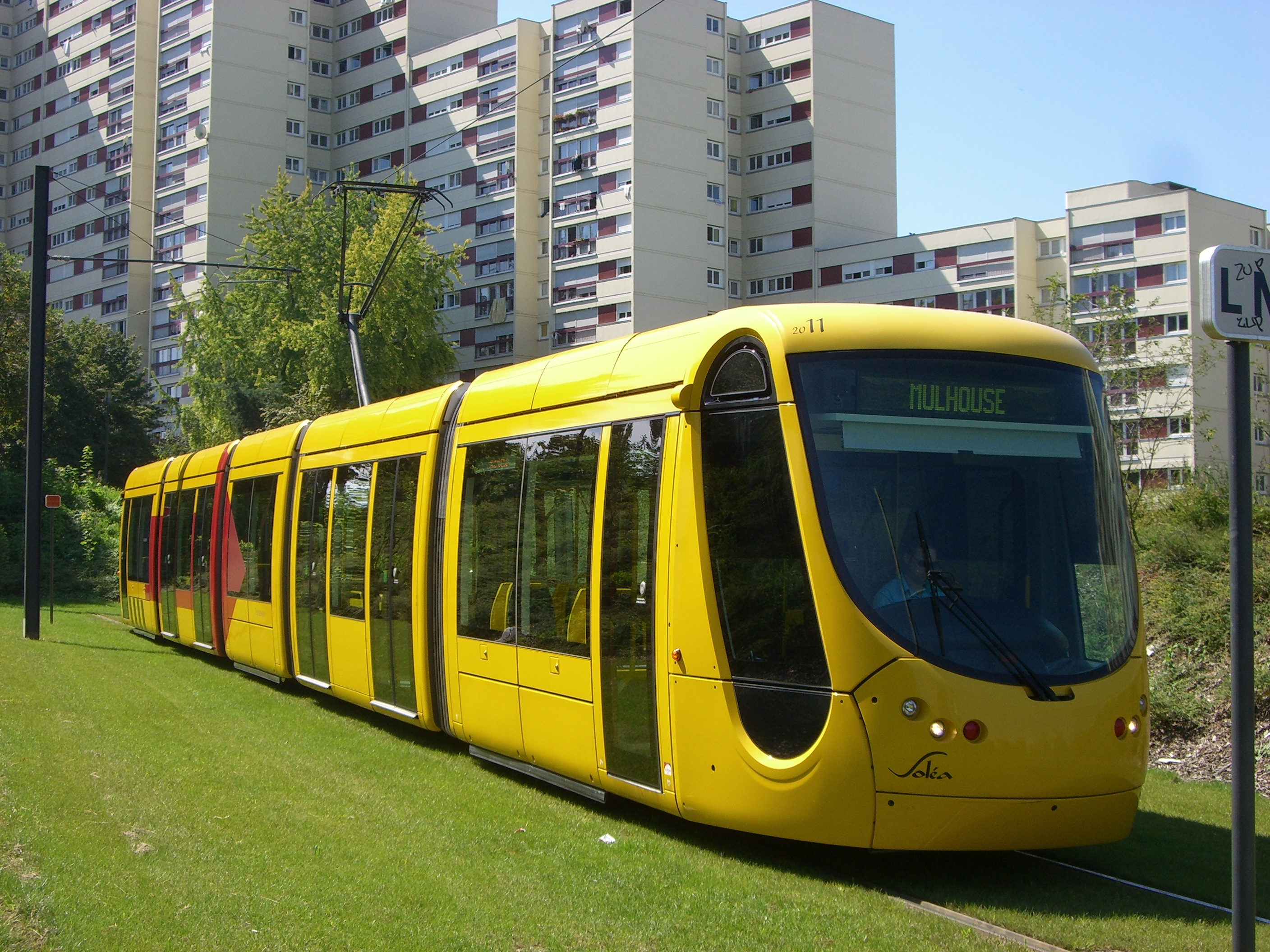 Alstom Citadis 302 Tram at Mulhouse.